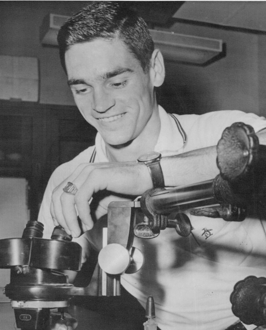 LG18 60s Wire Photo FRED HANSEN Olympic Pole Vault World Record Gold Medal Champ